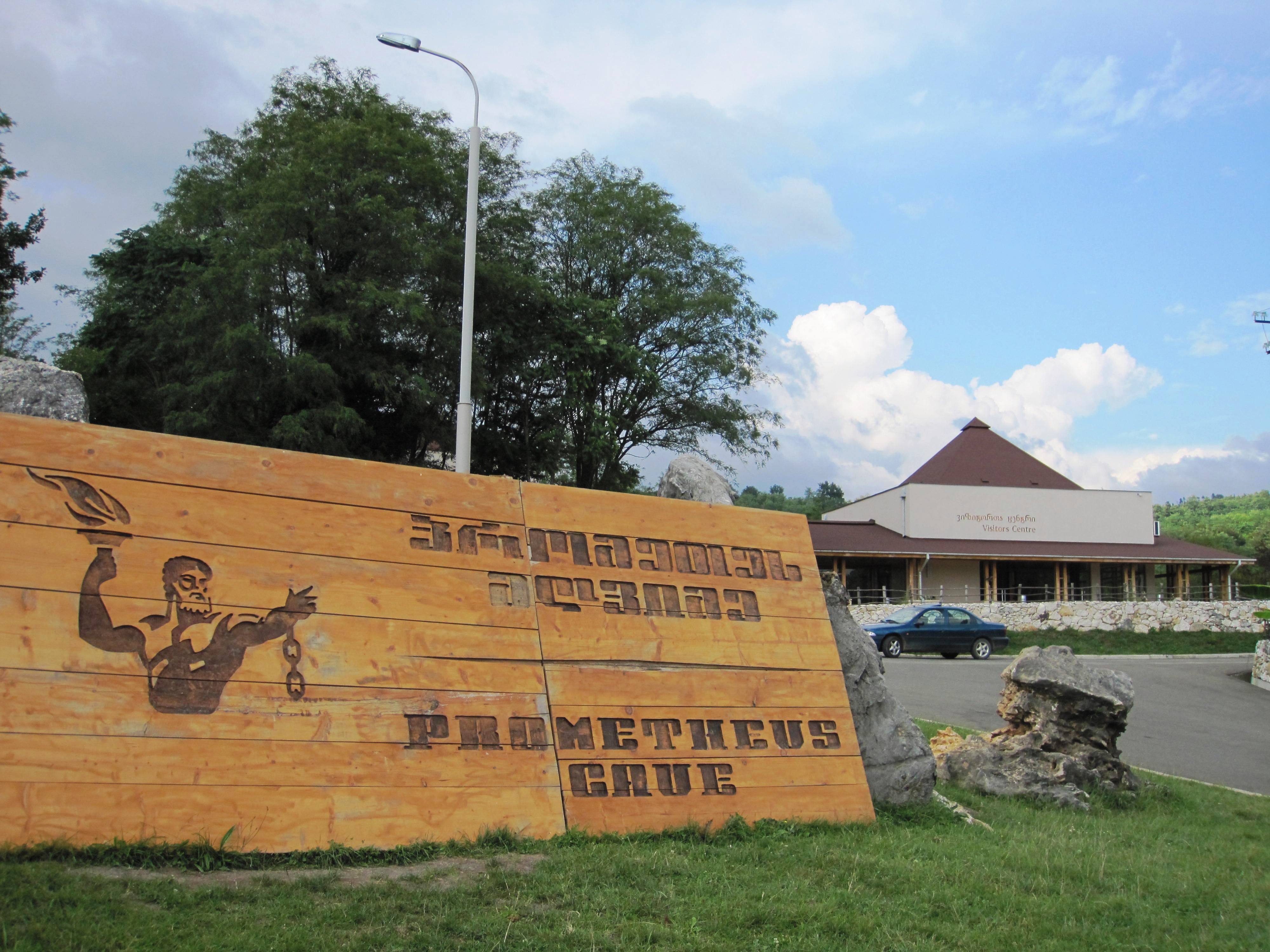 A visitors' centre at the Kumistavi cave "Prometheus" in Georgia